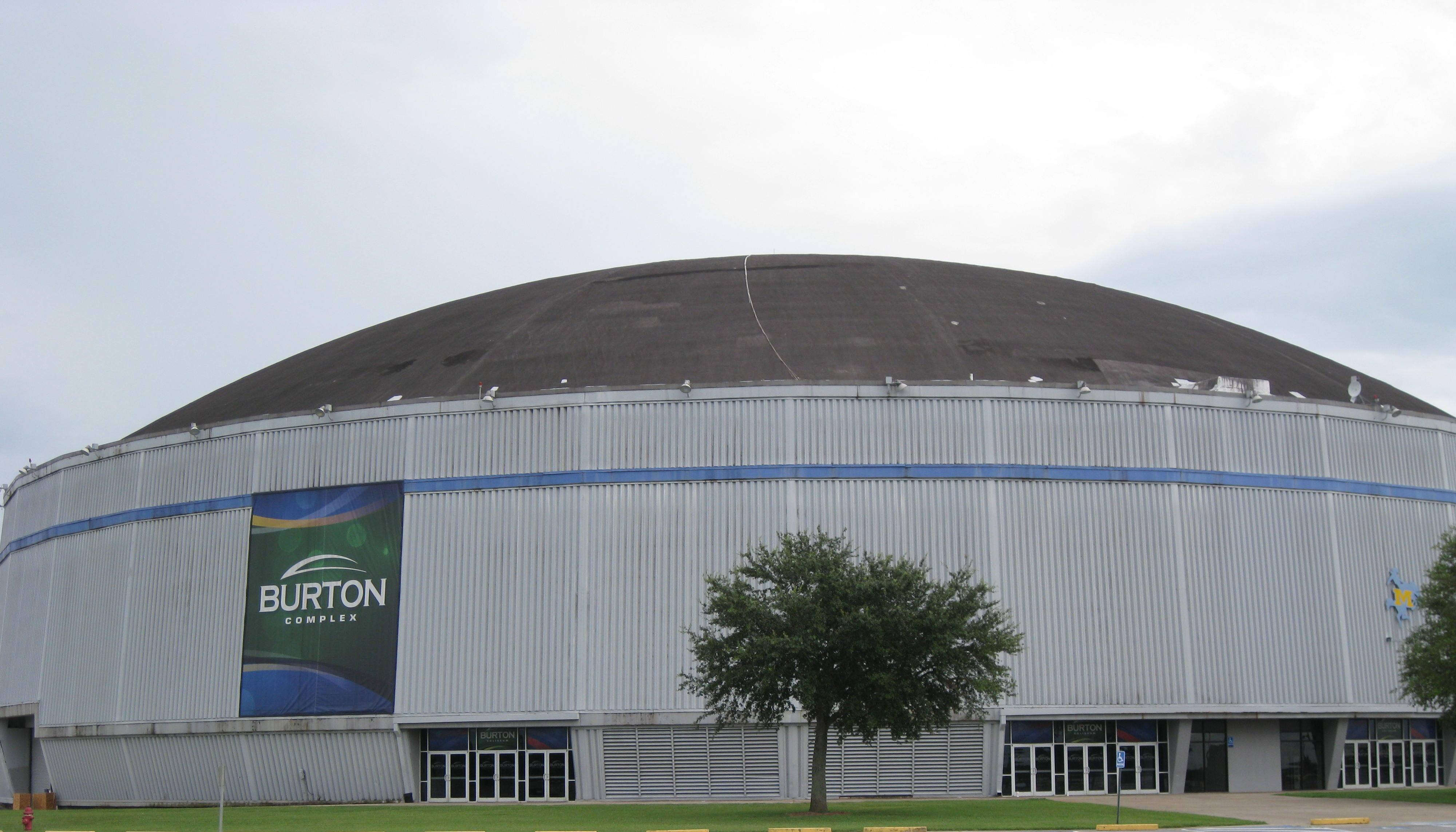 Burton Coliseum, an arena located in the Burton Complex in Lake Charles, Louisiana, USA.